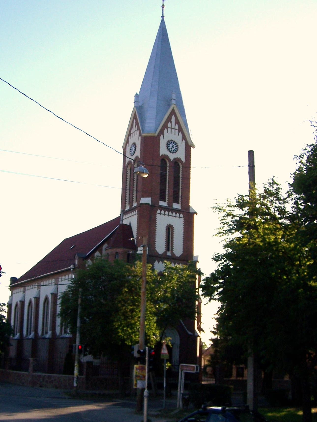 Reformed church in Rákoscsaba